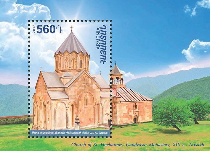 Gandzasar monastery | Artsakh Аҧсшәа: Монастырь Гандзасар | Арцах